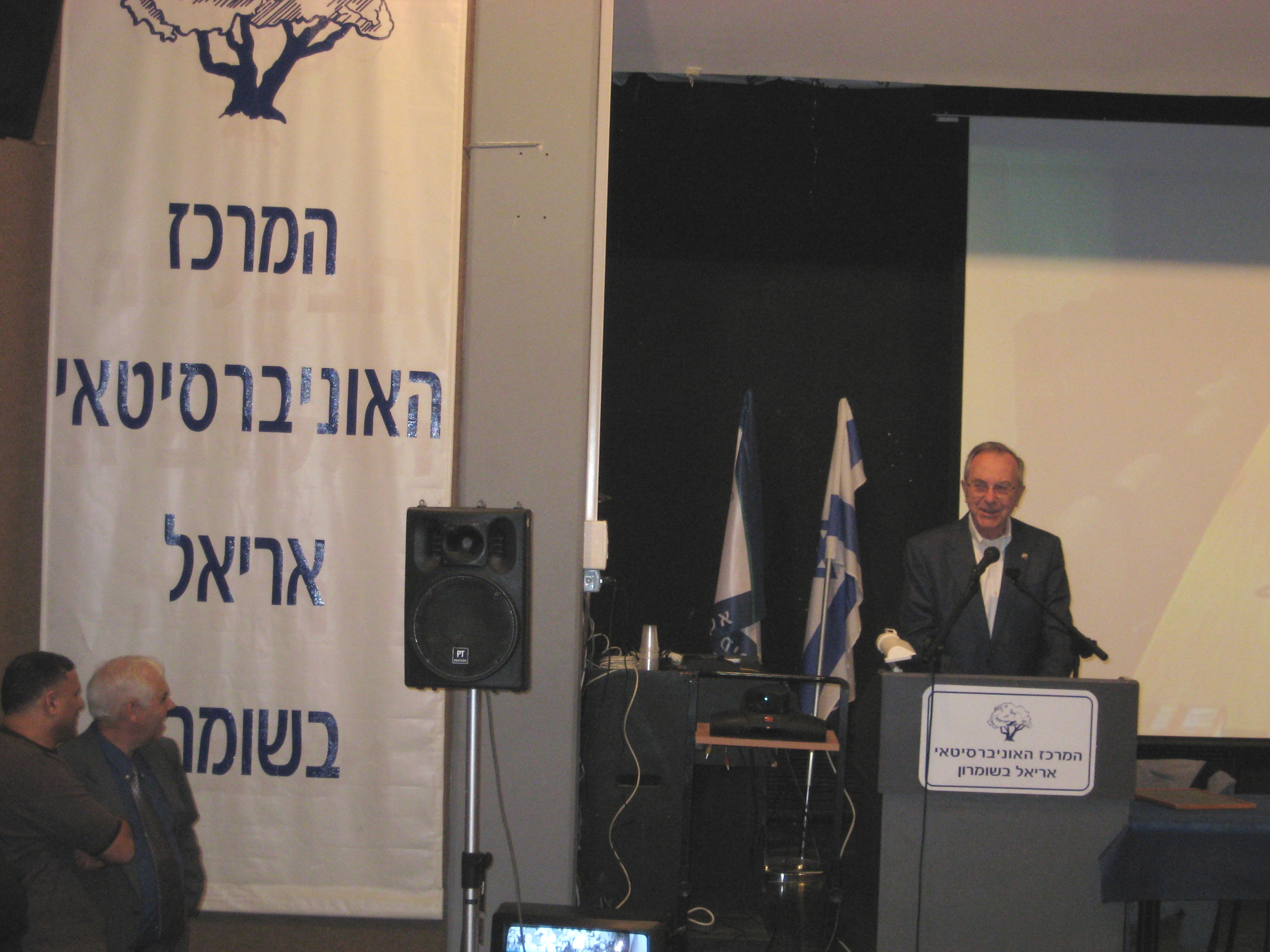 Professor Moshe Arens, Chairman of the International Board of Governors of the Ariel University, Former Minister of Defense and Foreign Minister